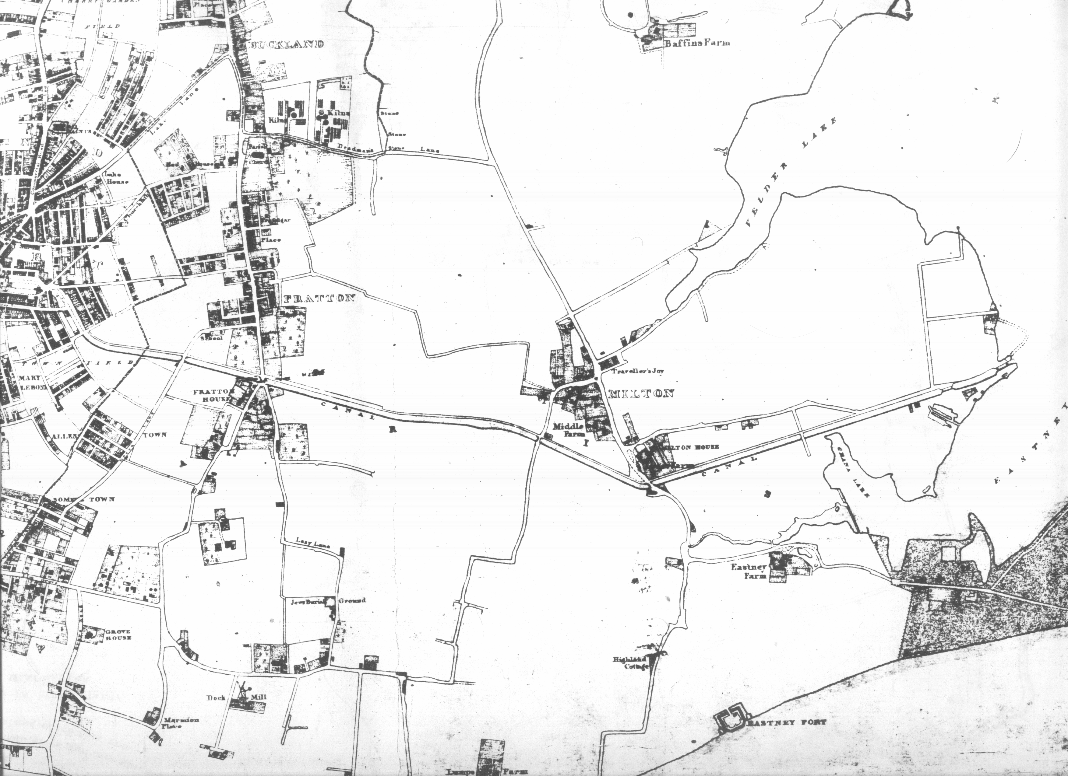 Map of bottem of portsea island from 1833 showing the portsea section of the Portsmouth and Arundel Canal